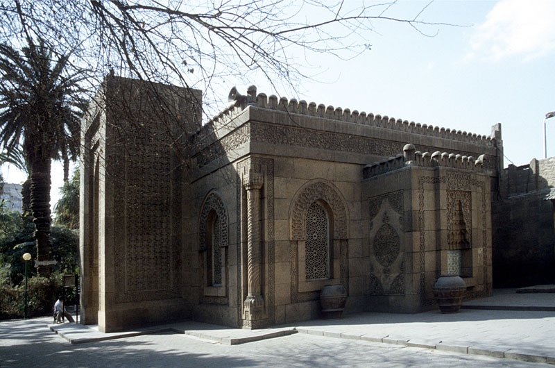 Mosque inside the Manial palace, Roda island, Cairo, Egypt